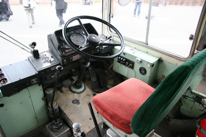 Cockpit of Isuzu BU04 taken at parking lot Satiata Stadium 2002, Midori-ku, Saitama, Saitama, Japan.